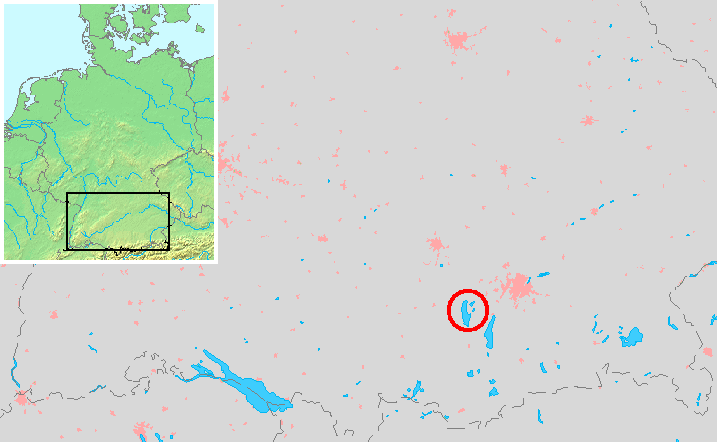 Location maps of lakes in Germany